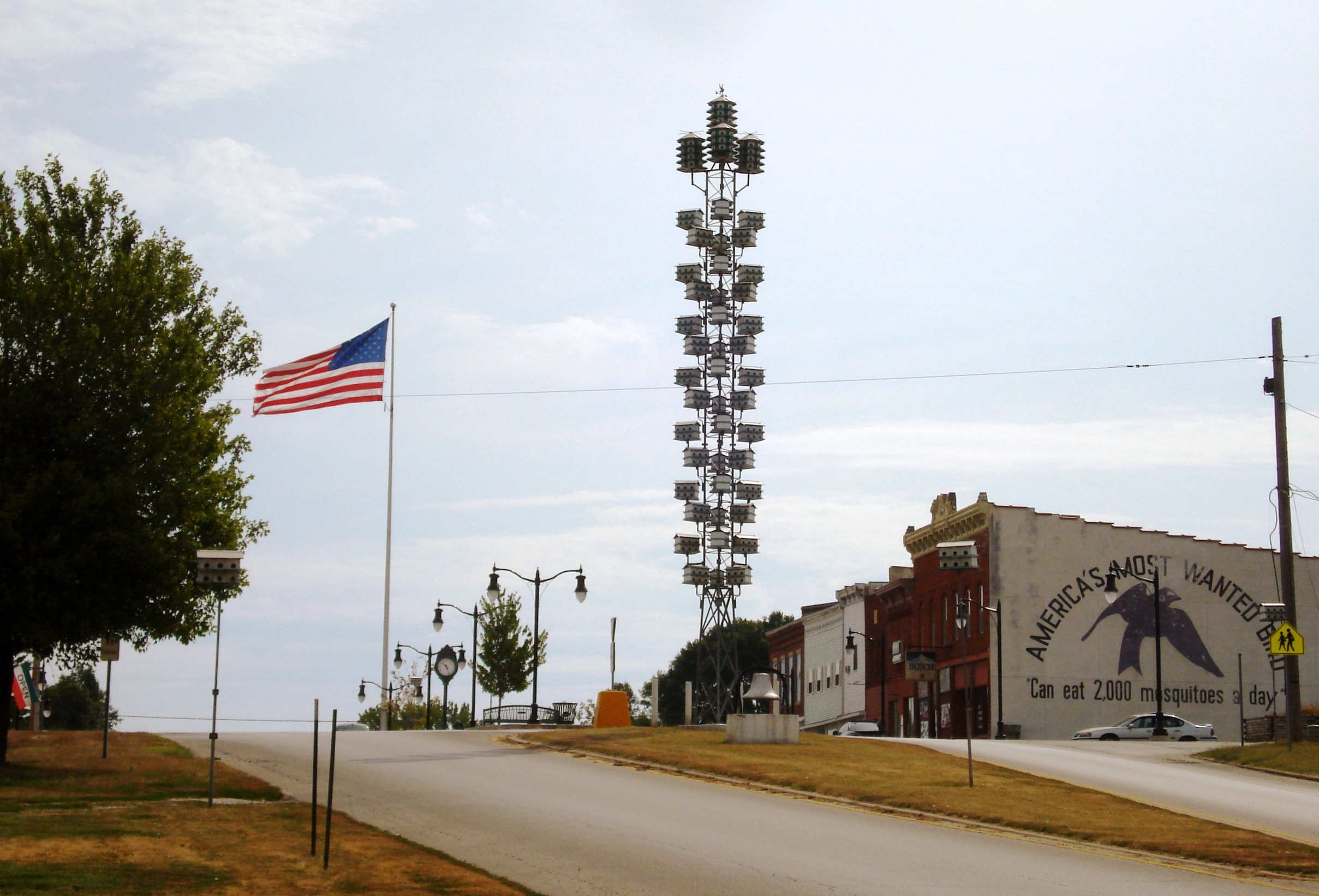 Purple Martin capital of the world - Griggsville, Illinois.